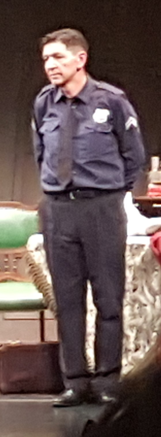 Gerasimos Skiadaresis at Theatre Ilisia, 2017, Arthur Miller's play: The Price